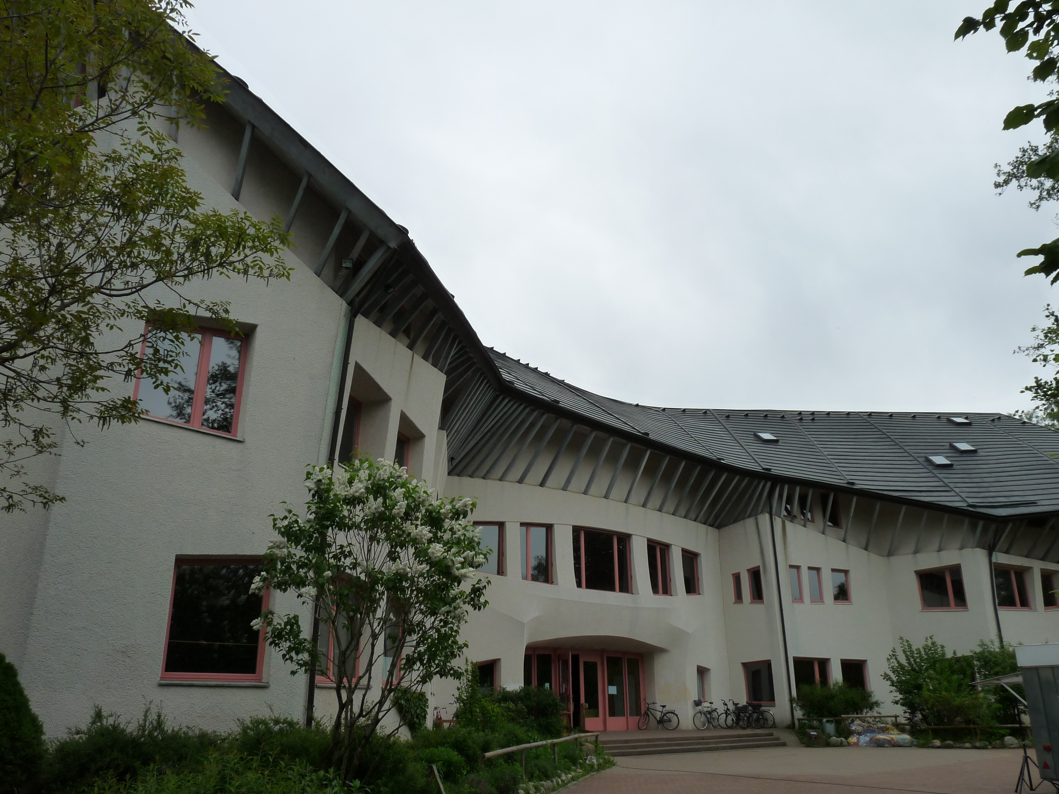 Steiner School in Schopfheim, Germany